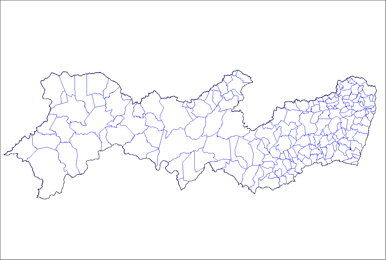 Map of the municipalities of the state of Pernambuco, Brazil. Created by Rarelibra 22:11, 24 August 2006 (UTC) for public domain use. Created using MapInfo Professional v8.5 and various mapping resources.